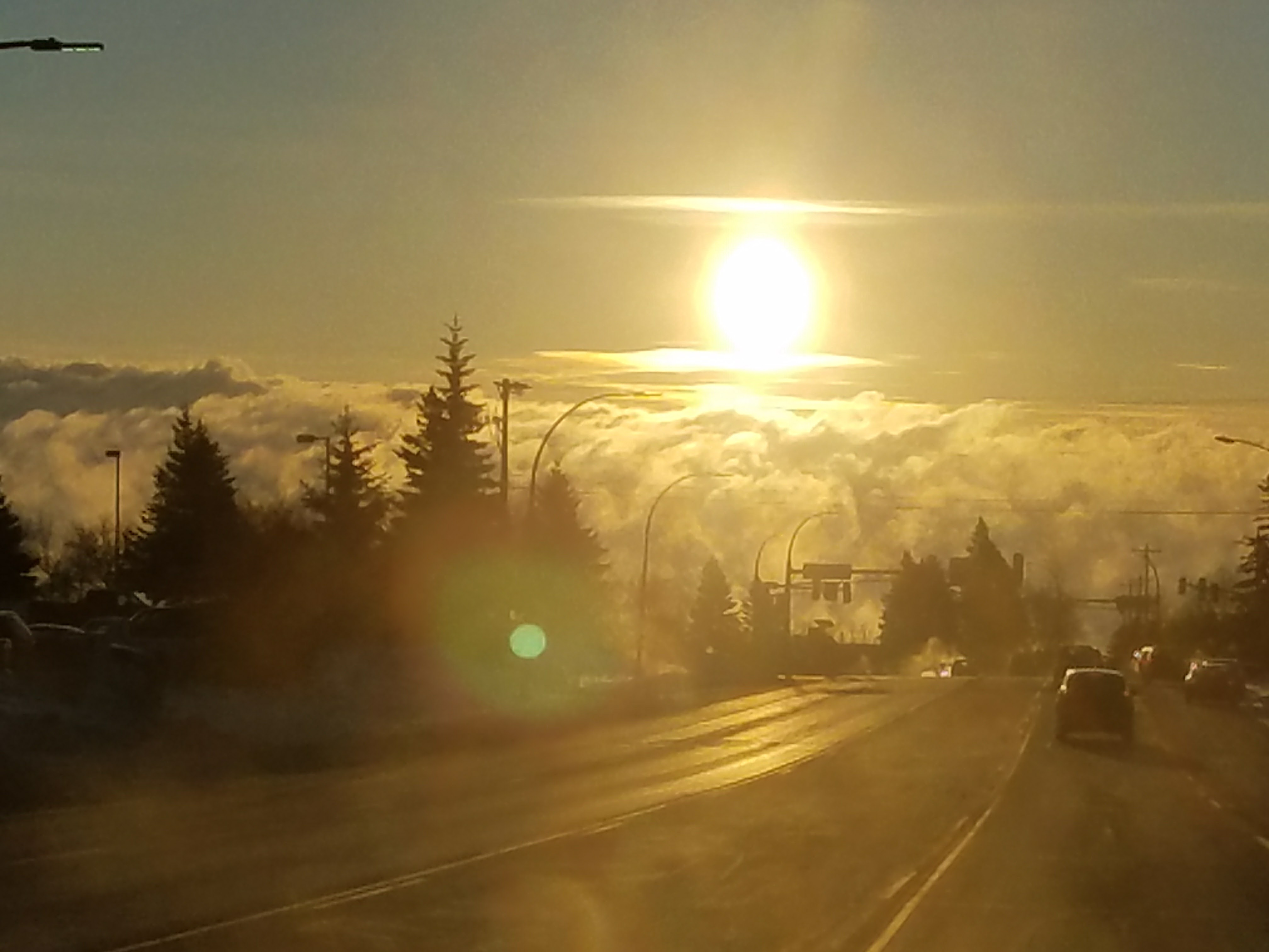 Sea Smoke over Lake Superior in Duluth, MN. January 5, 2016